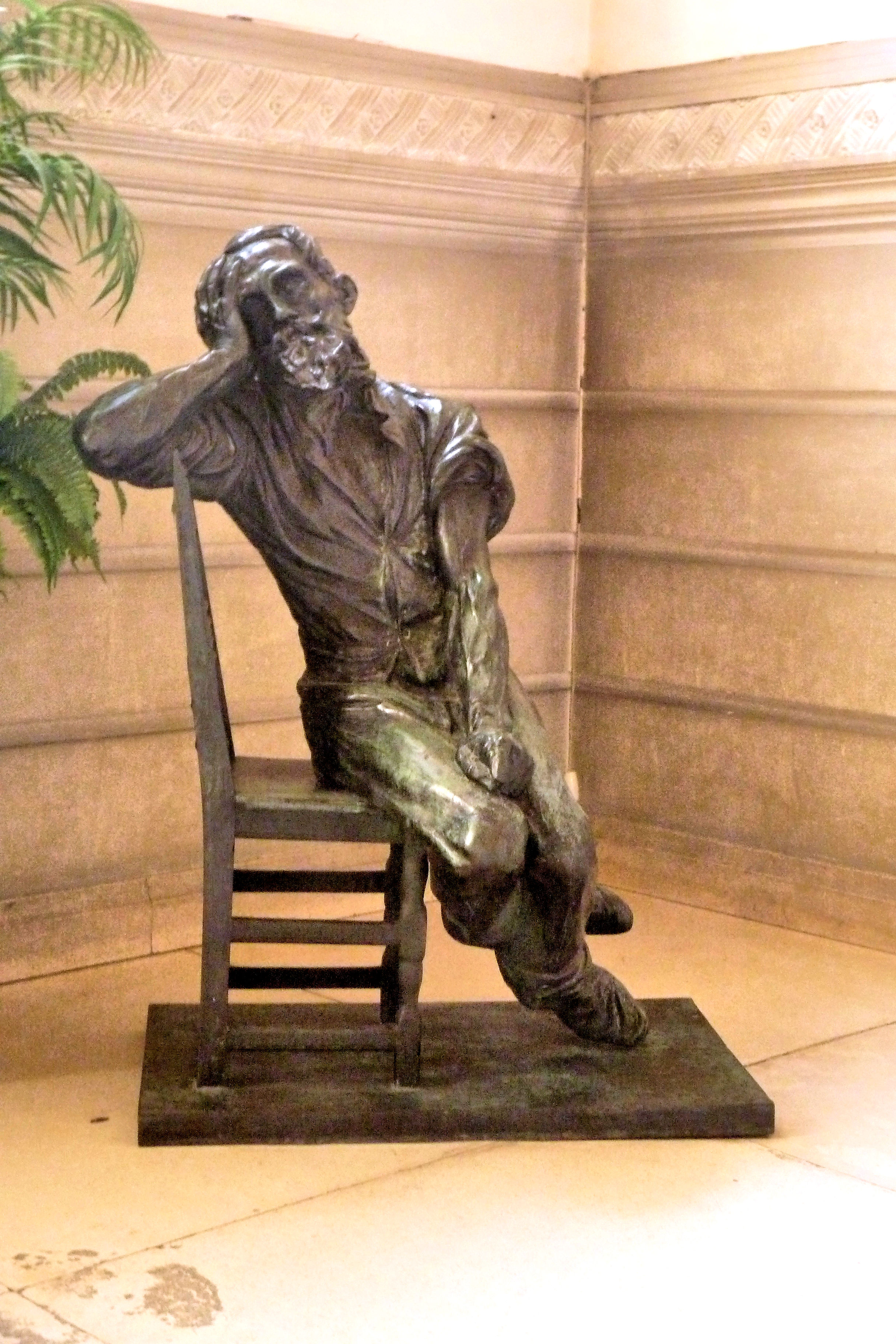 Bronze self-portait by Jef Lambeaux